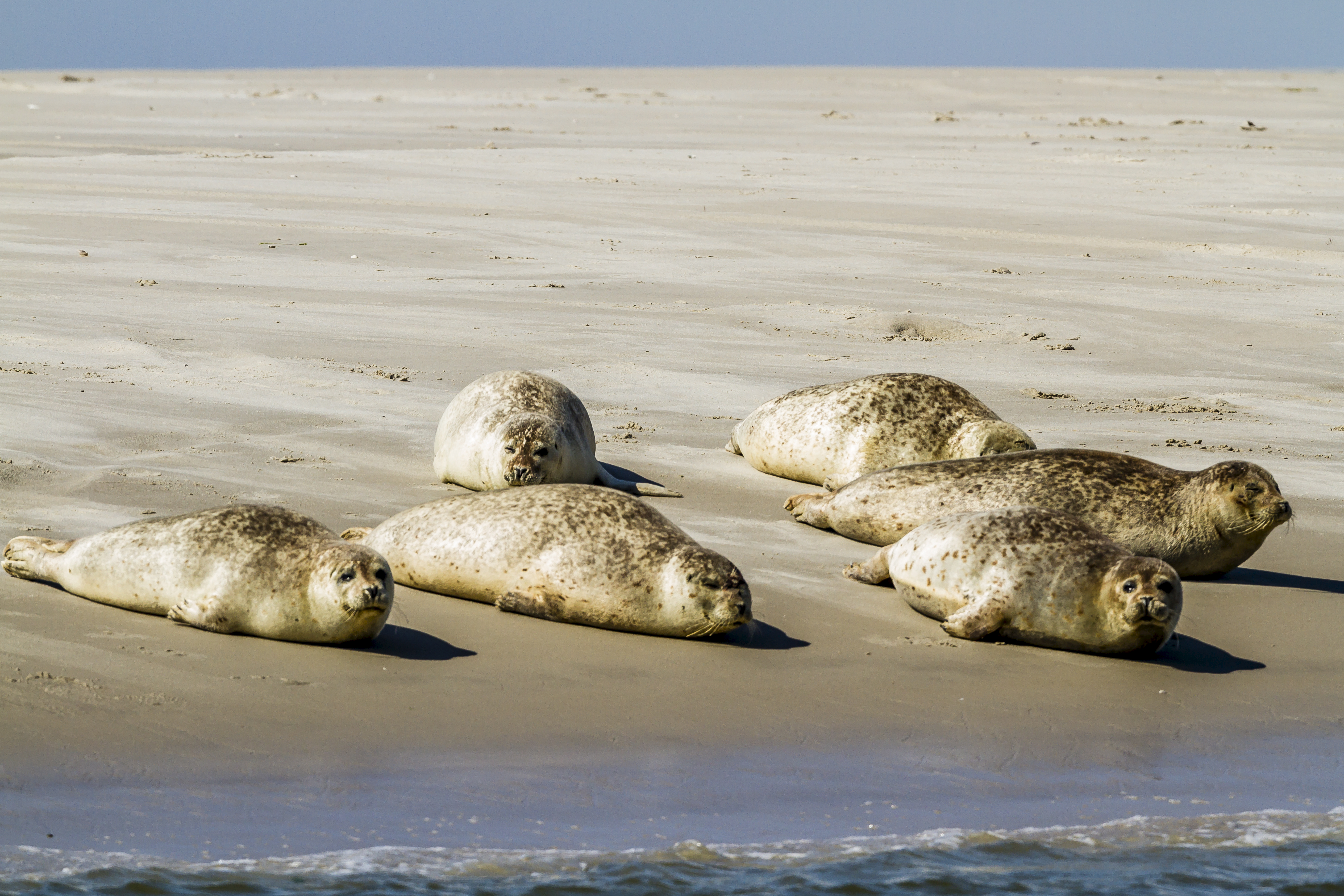 Seals